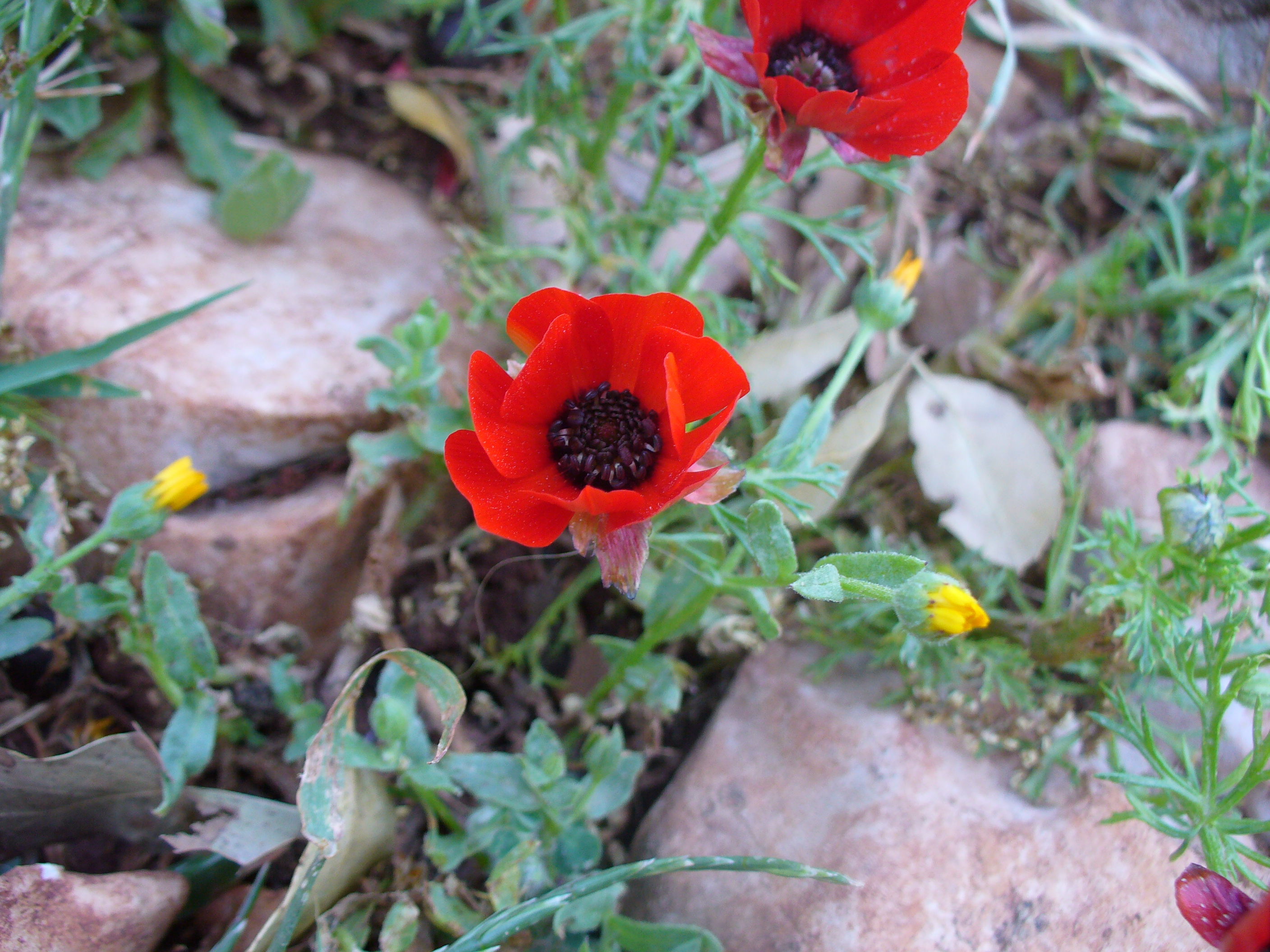 A red flower in the genus Anemone found in Jordan.